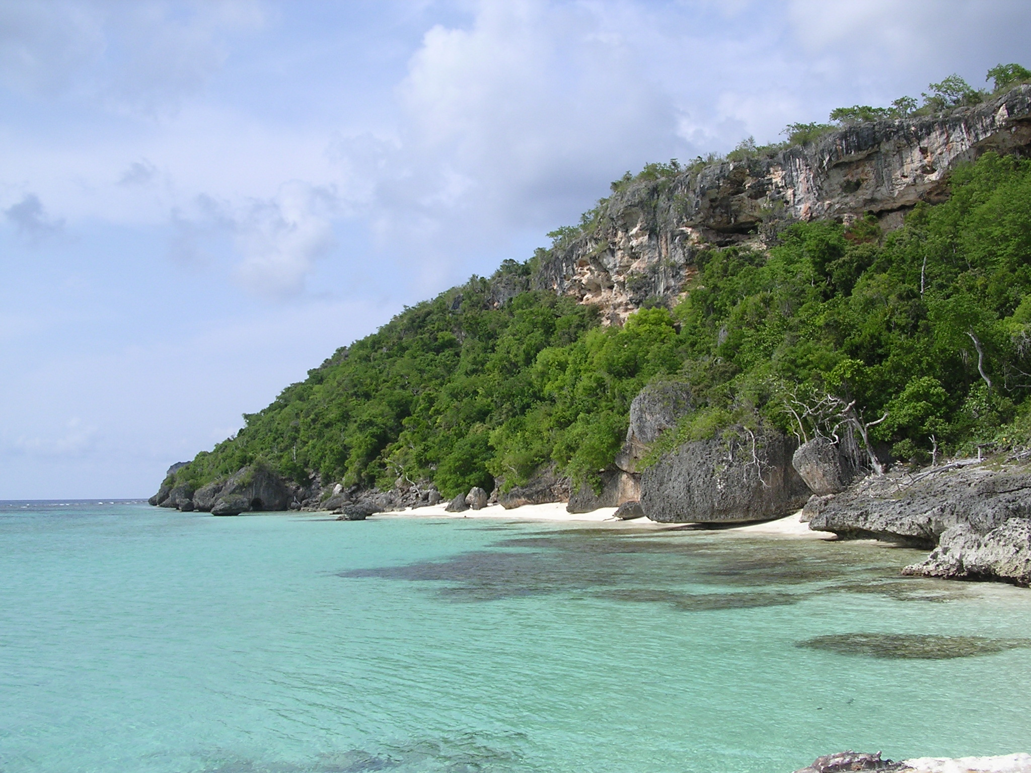 Picture taken by me on Mona Island, Puerto Rico.